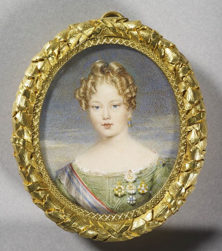 Queen Maria of Portugal. Watercolour on ivory, c. 1836. Royal Collection Trust.